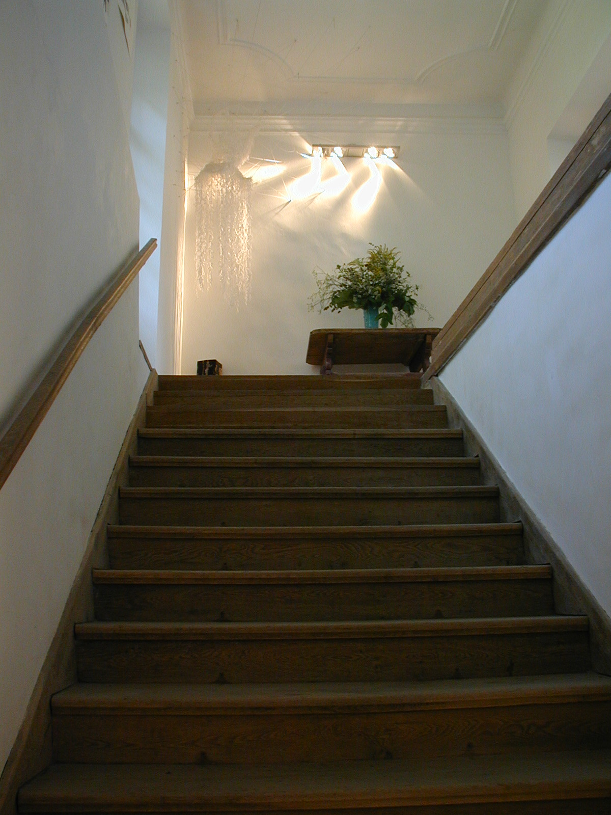 Třebešice (château_KH) L. Interior, Starcase, Kutná Hora District, the Czech Republic.